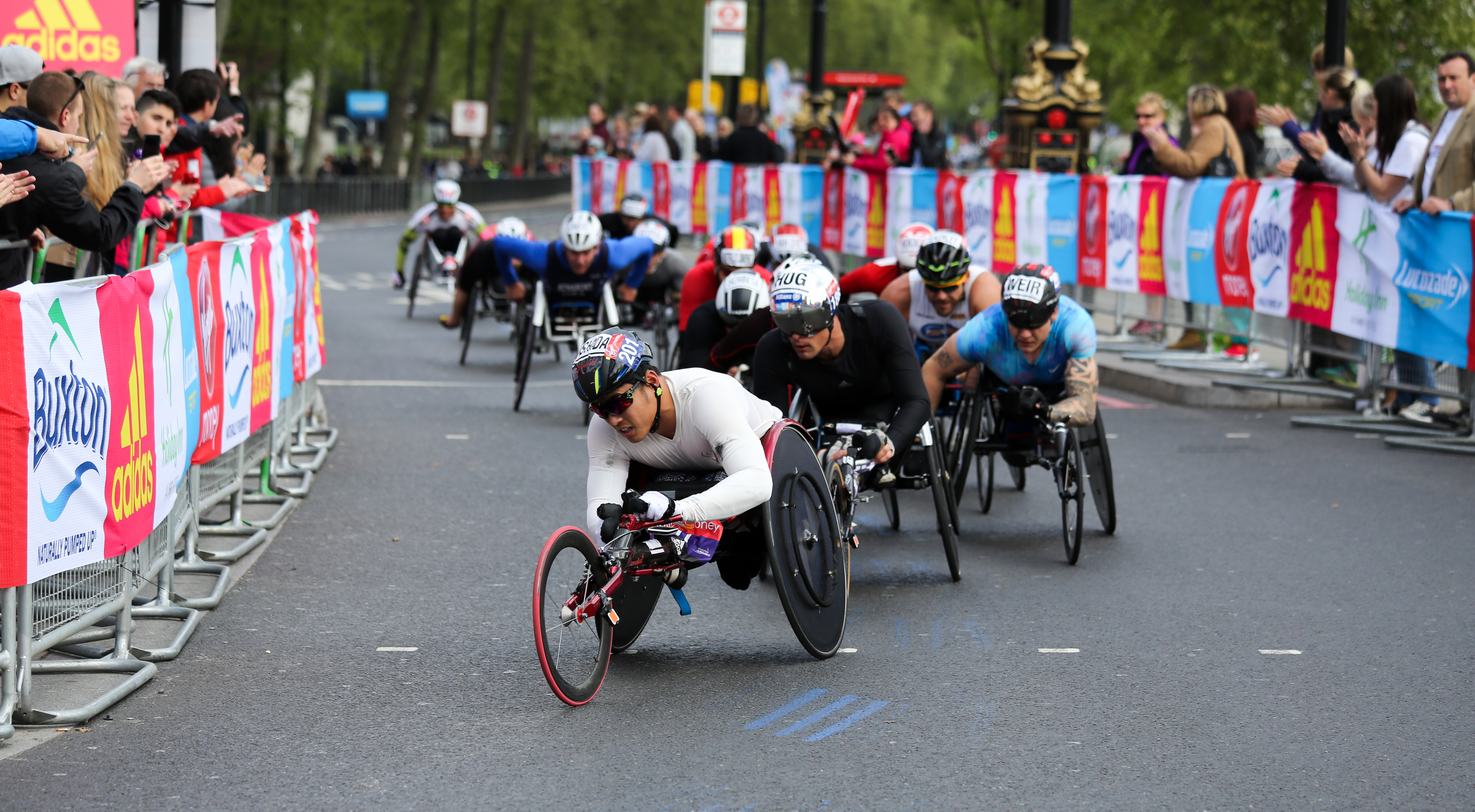 2017 London Marathon – World ParaAthletics Marathon World Cup (Wheelchair) Men – Leading pack ~25.3 miles (~40.7 km) with Hiroki Nishida in front.